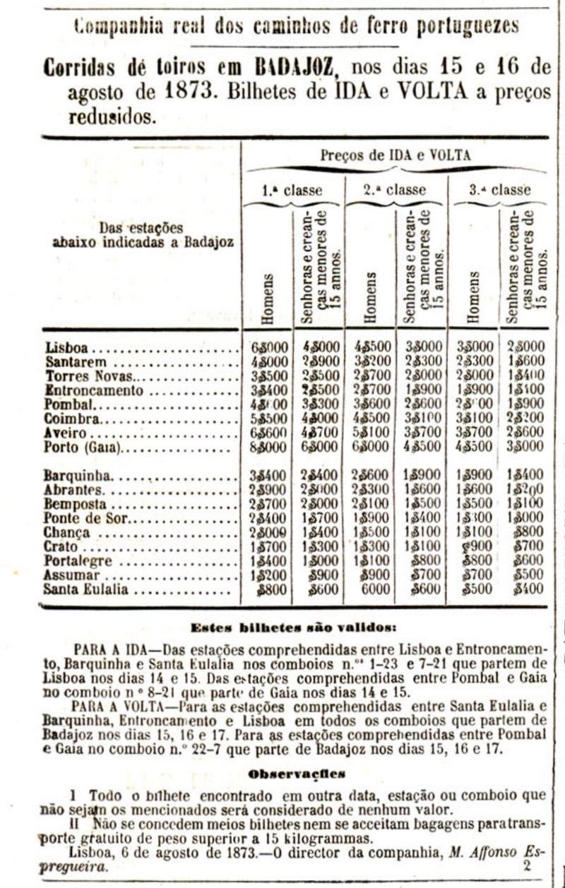 Advertisement of the Companhia Real dos Caminhos de Ferro Portugueses (Royal Company of the Portuguese Railways), for return tickets at special prices to Badajoz, for a bullfighting event, on the 15th and 16th August 1873. This image was published on the Diario Illustrado newspaper No. 375, of 13th August 1873, and scanned by the Biblioteca Nacional de Portugal.